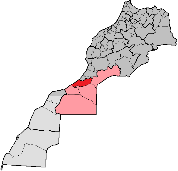 Location of the province Guelmim within the region Guelmim-Es Semara, Morocco. In total, Morocco has 16 regions, subdivided into 62 provinces and 13 prefectures.